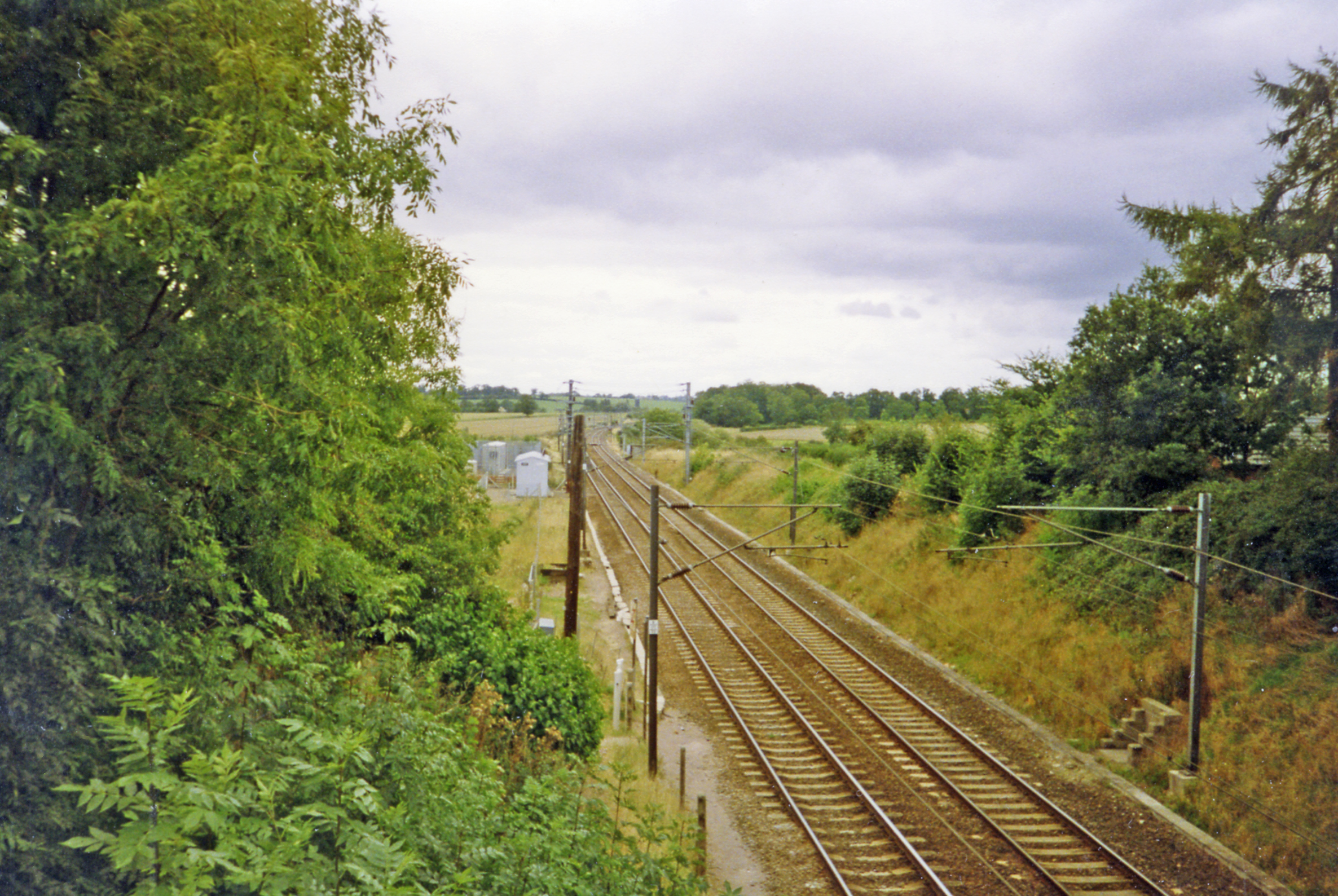 Site of Flordon station, 1993. View SW, towards Ipswich and London: ex-GER London Liverpool Street - Colchester - Ipswich - Norwich main line, electrified 1986. Flordon station had been closed 7/11/66.